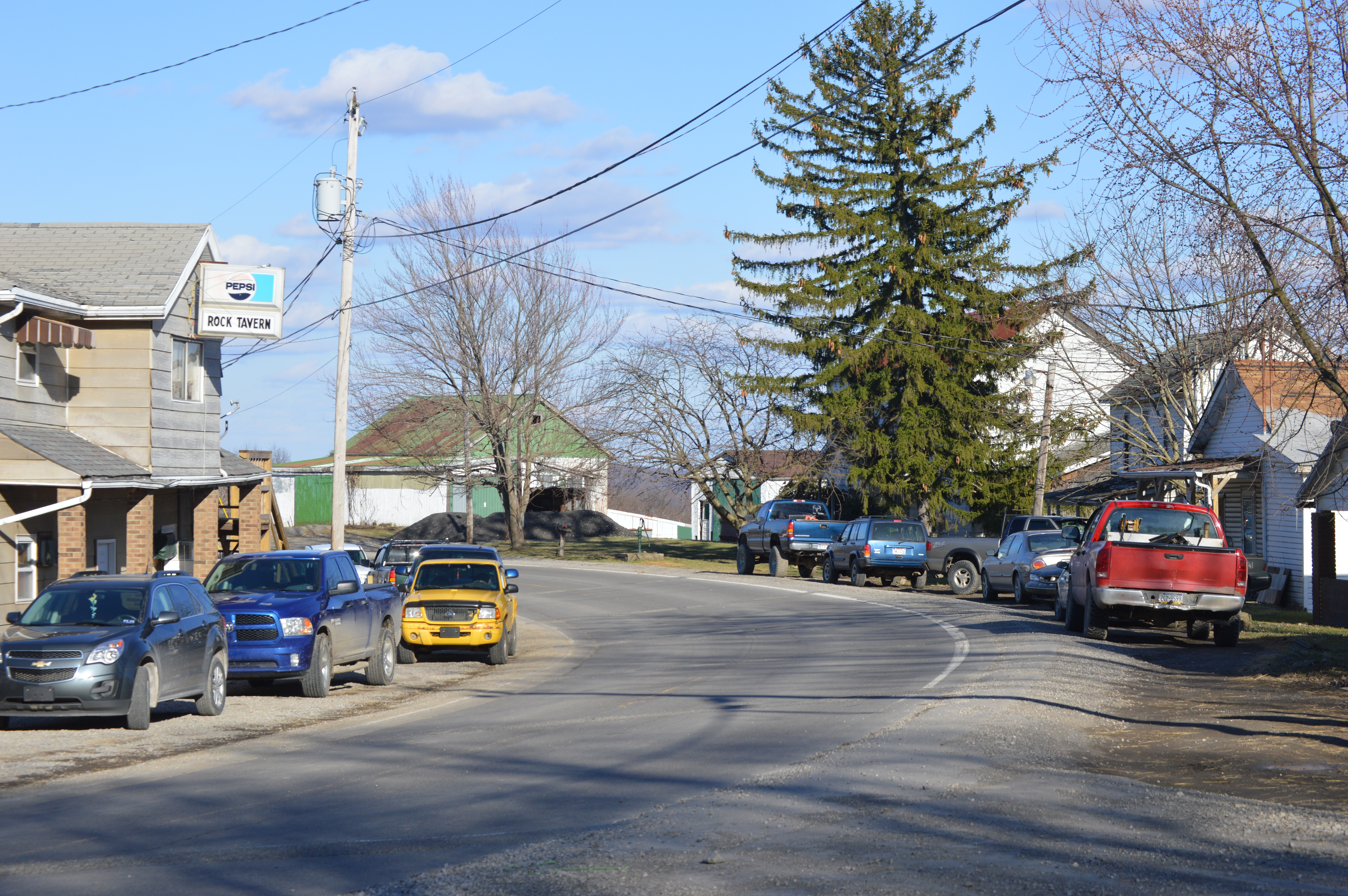 Looking east along West Virginia Route 891 through the small community of Rocklick, West Virginia, United States.